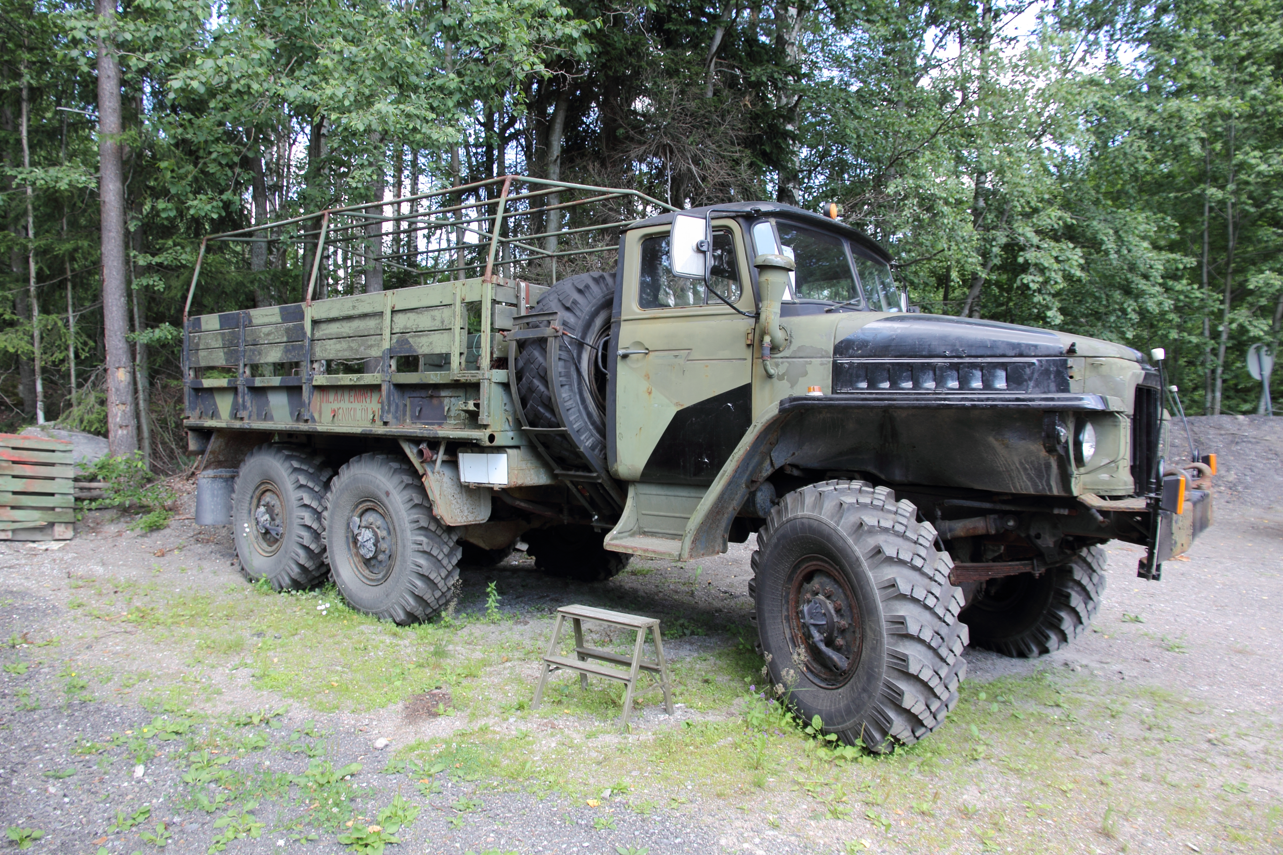 Ural-375D model 1977 in Museo Torpin Tykit.